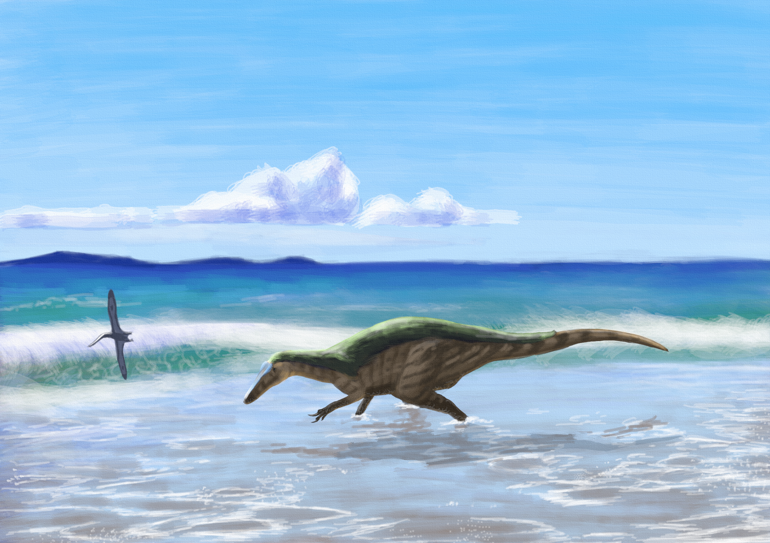 Reconstruction of Joan Wiffen's Theropod based on related species Australovenator